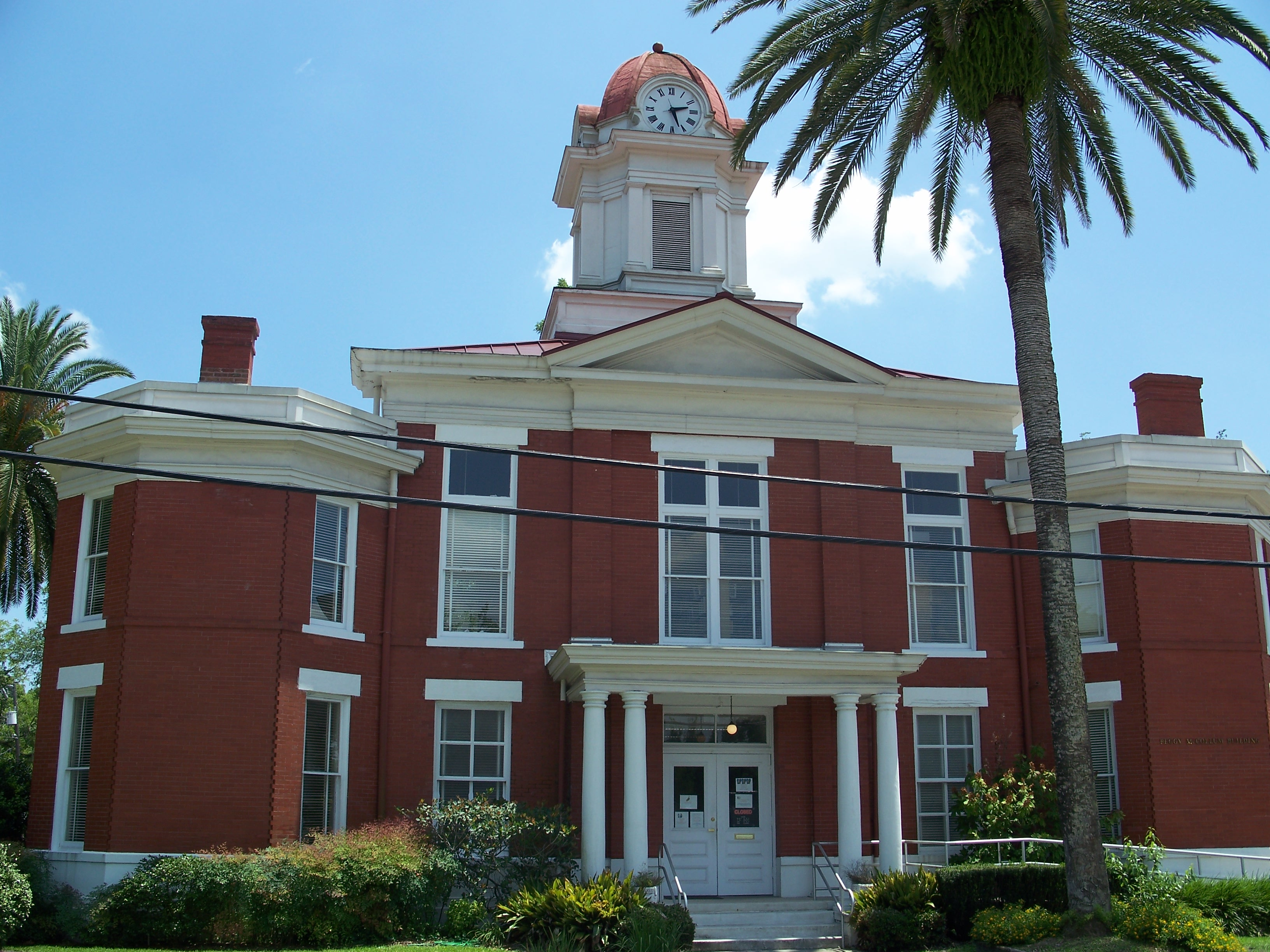 Old Baker County Courthouse, now the Emily Taber Public Library, in Macclenny, Florida